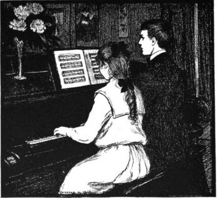 Poster Drawing for "Piano Study". By courtesy of the Wulschner Music Co., Indianapolis